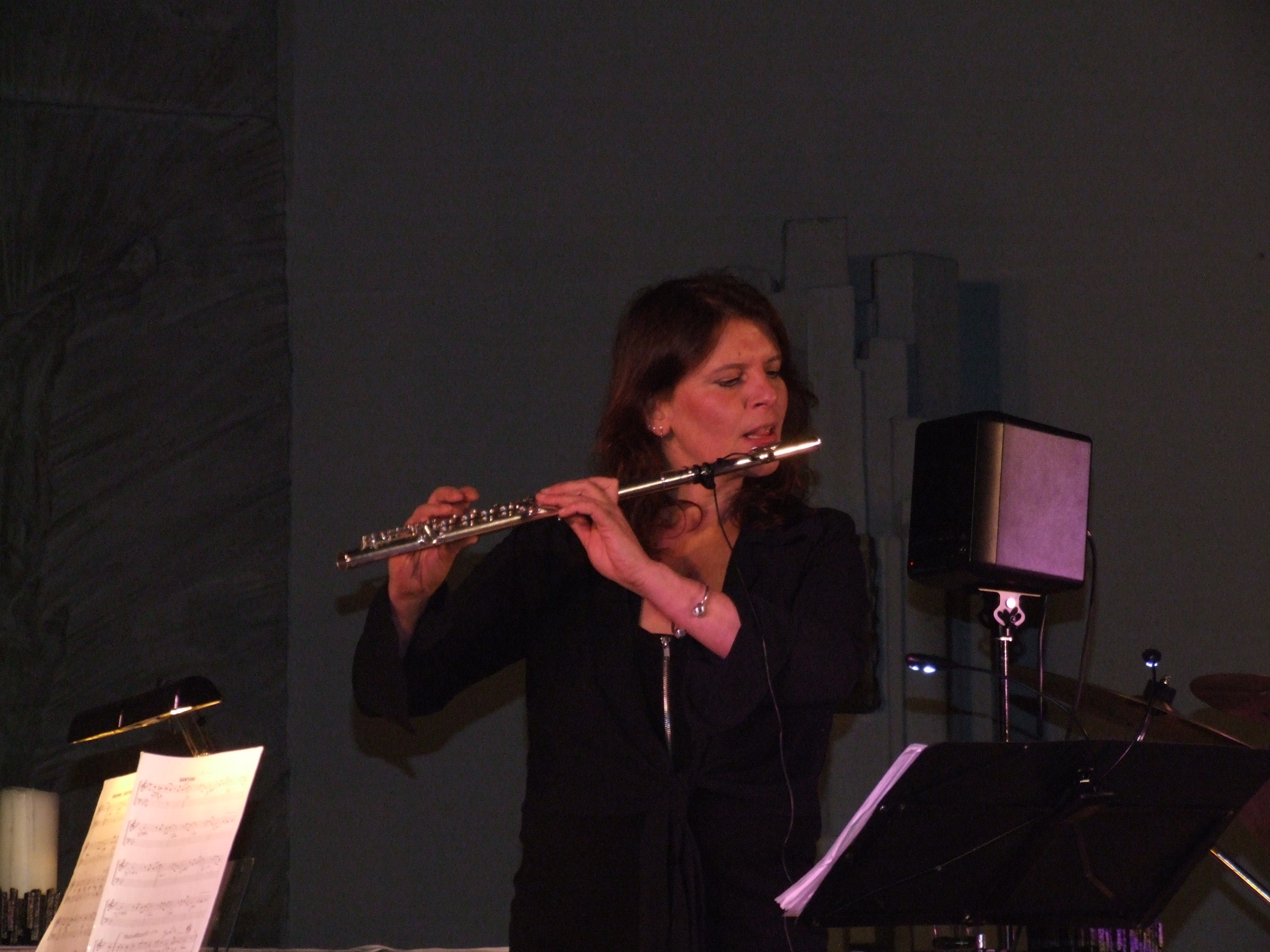 Petra Erdtmann (traverse flute) in the band Thirty Fingers in February 2013 in St. Konrad, Speyer